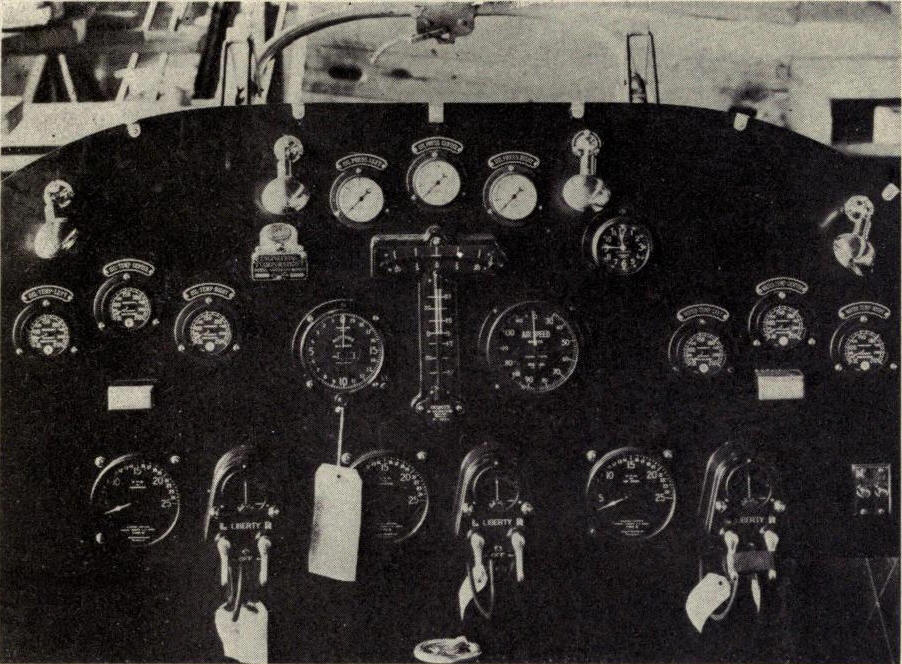 Curtiss NC-3 Instrument Board (center nacelle)